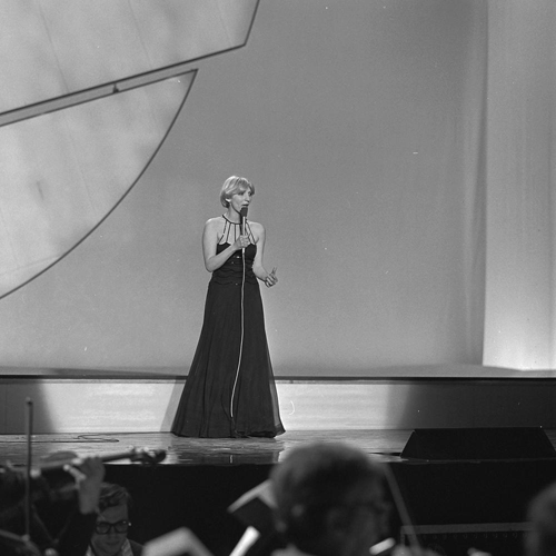 Mary Christy at a rehearsal for the Eurovision Song Contest 1976.